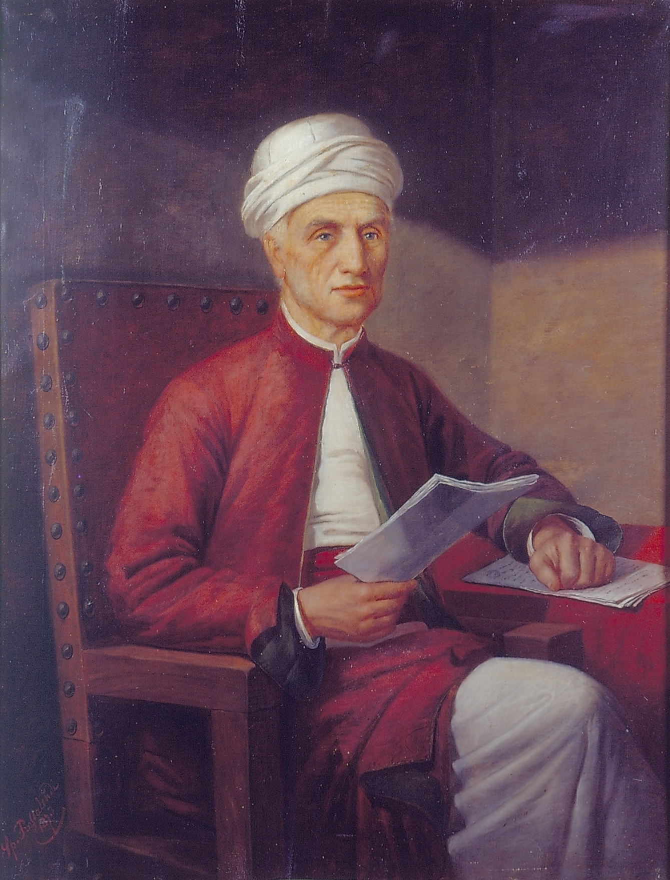 Depicted person: Dimitrios Galanos – Greek indologist (1760-1830)